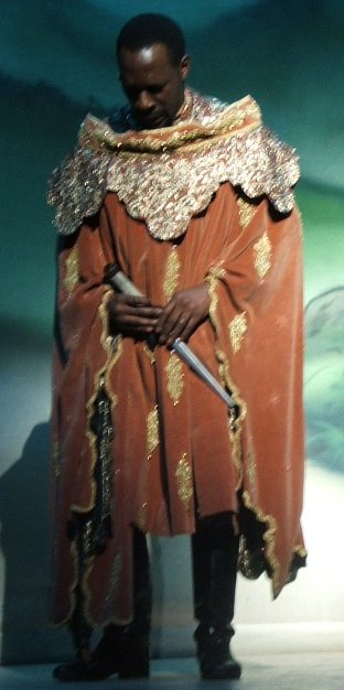 Gary Beadle in his role as the Queen's Henchman in the pantomime Snow white, at Southend